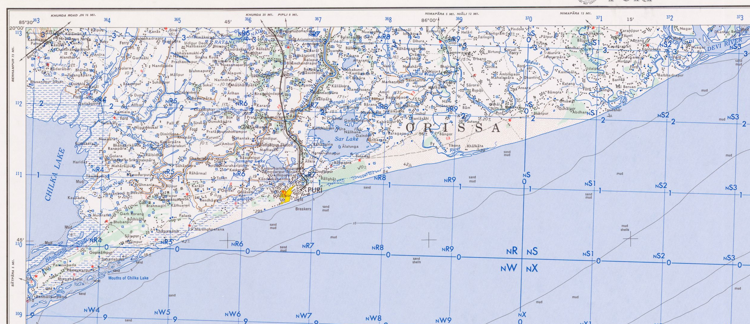 1:250,000 scale topographic map Puri India, #ne-45-02 cropped to show N.Chilka Lake